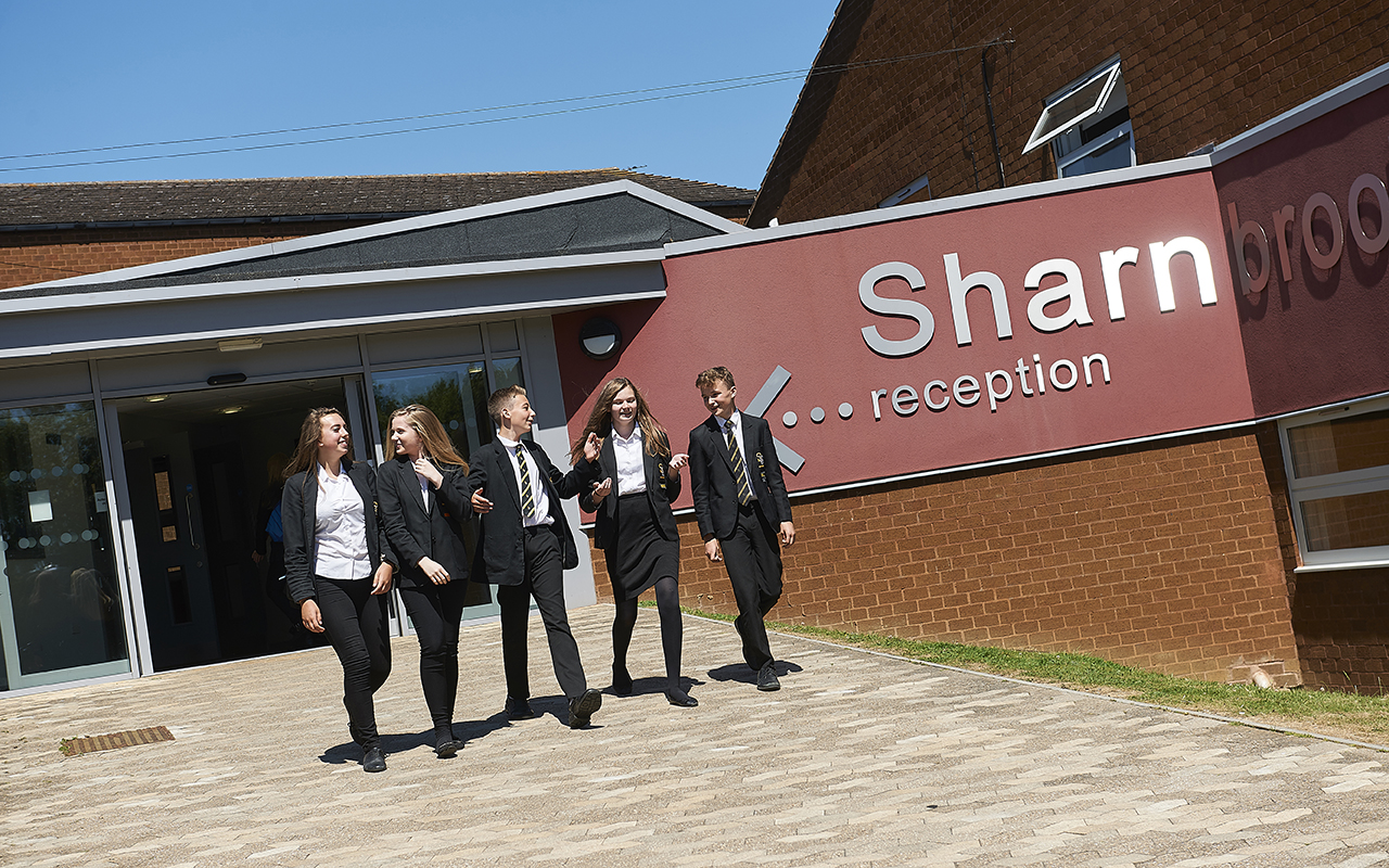 Front entrance to Sharnbrook Upper School, leading into the reception area and Head of House offices.